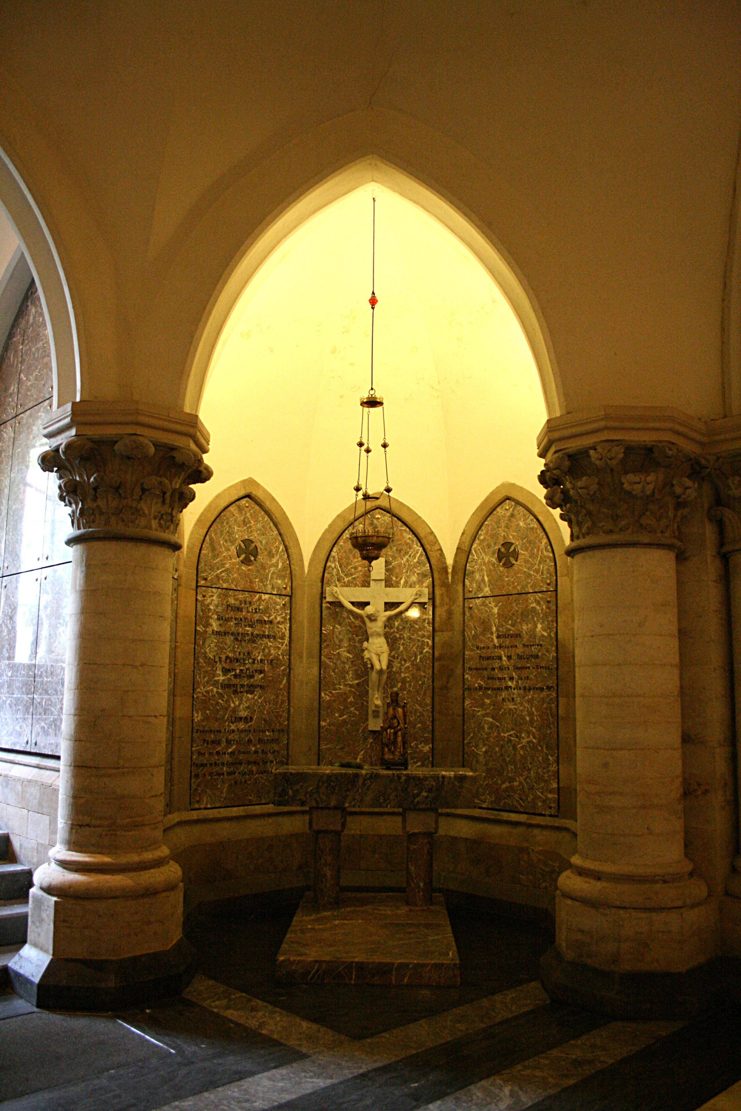 Royal Crypt in the church Notre-Dame at Laeken (Brussels), Belgium. Burial place of the Belgian sovereigns, their wives and some members of the Belgian royal family.